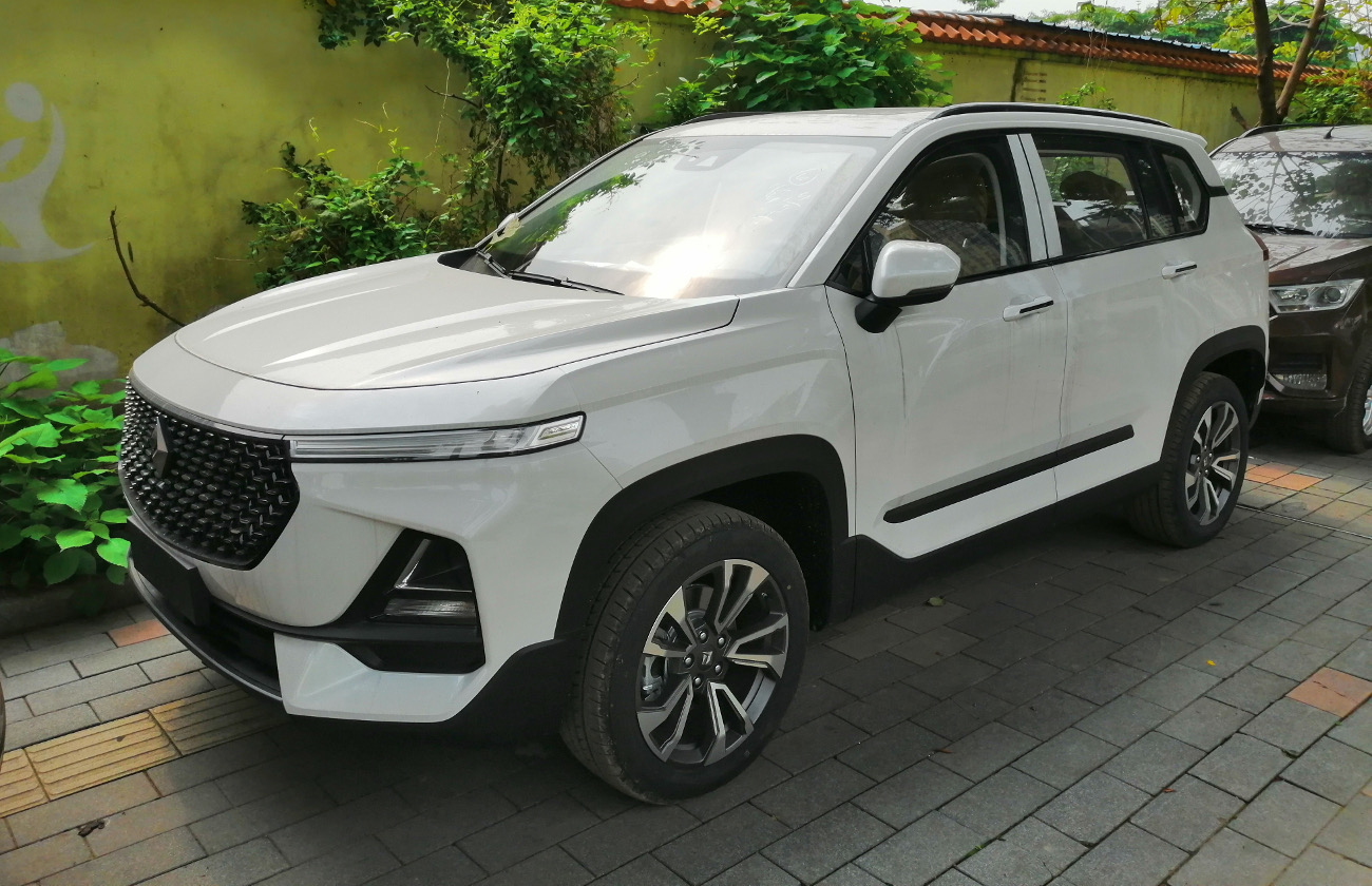 Baojun RS-5 photographed in Guangzhou, Guangdong province, China.